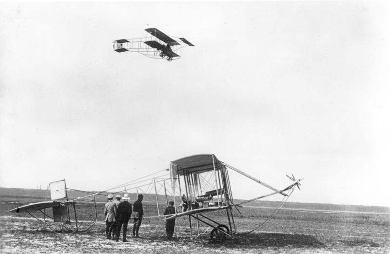 Zentralbild. Image of the Johannisthal Air Field (Flugplatz Berlin-Johannisthal ) in 1910. Shown here: above on the air is Robert Fey on his FarmanIII at the flight, and below on the ground is Amerigo[1] with his Sommer plane before the start. - 7089-10